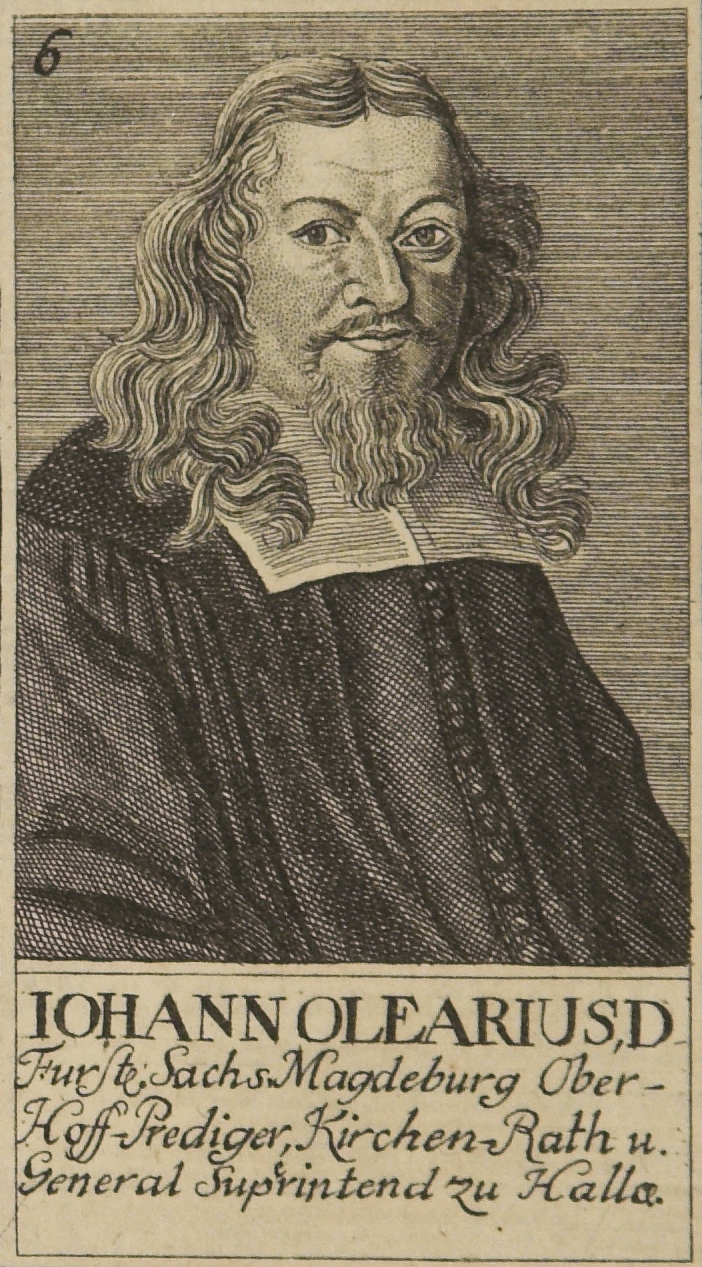 Johannes Olearius (1611–1684)